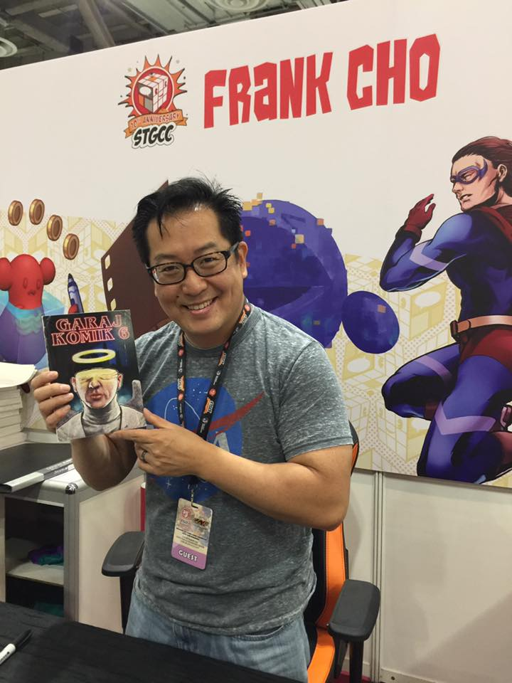 Frank Cho with Garaj Komik 6 at the Singapore Toy, Game & Comic Convention (STGCC) 2017